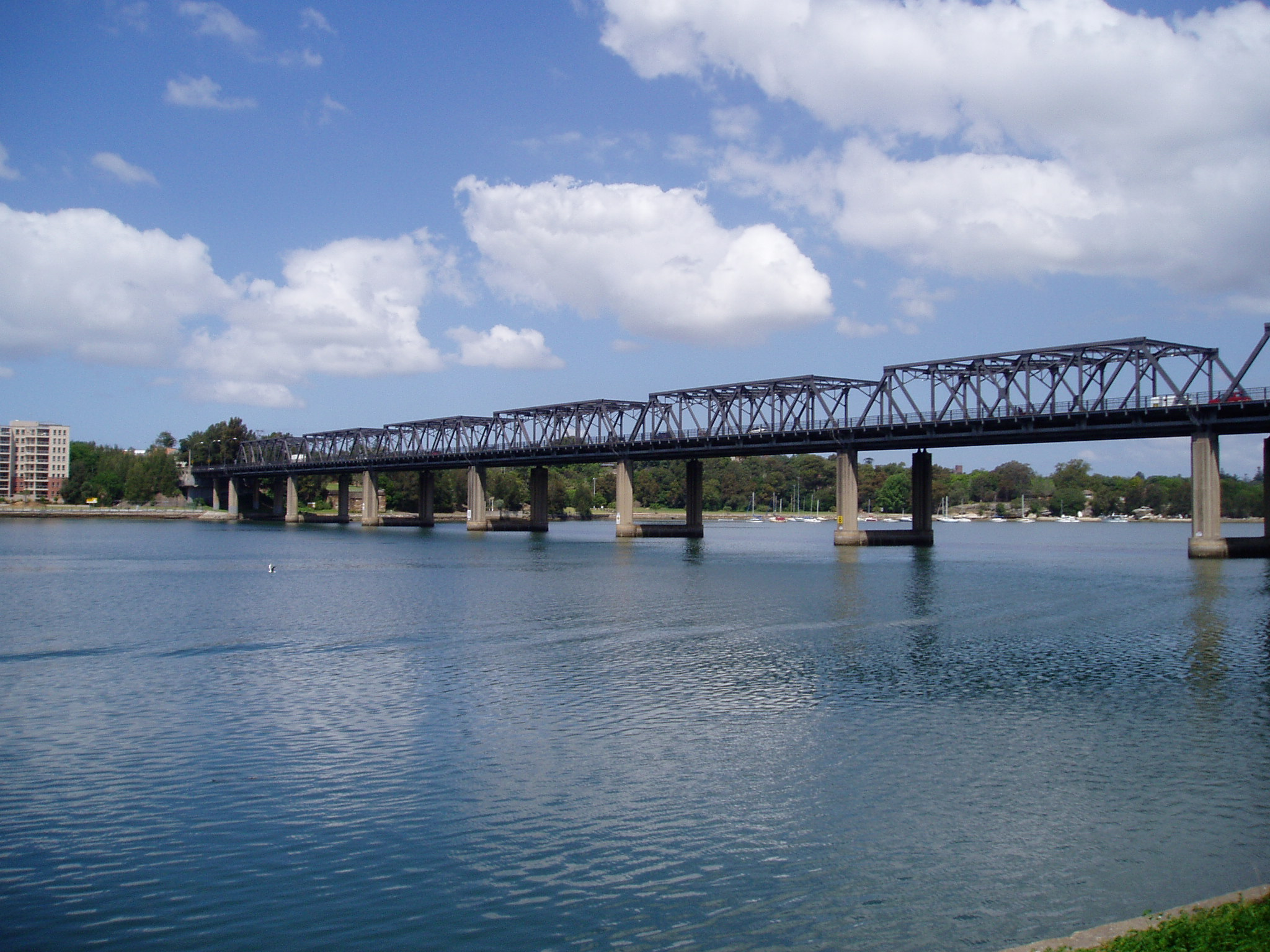 A full view of Iron Cove Bridge, which crosses the Iron Cove Bay on the Parramatta River.